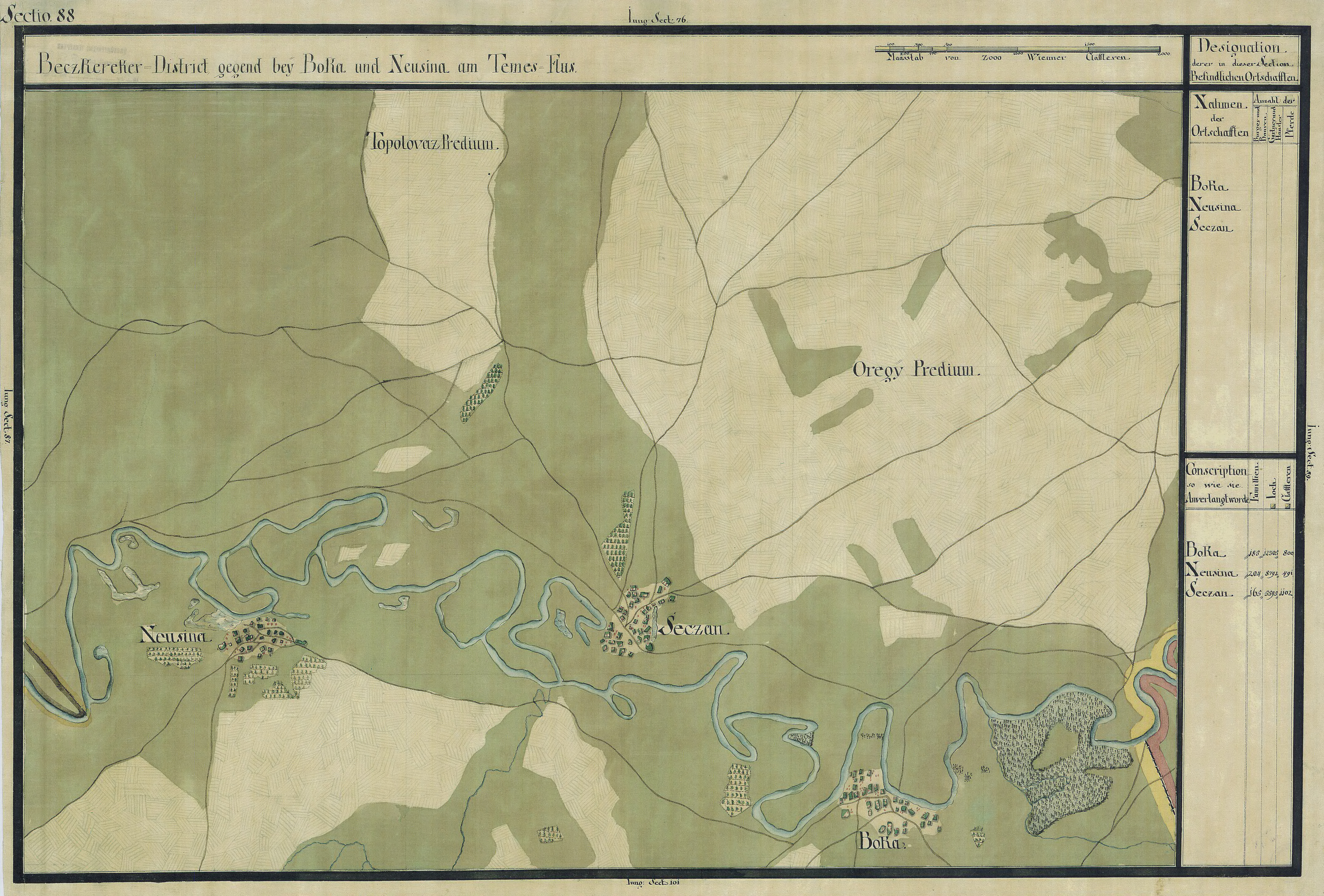 The Banat region in the cadastral maps: Josephinische Landesaufnahme, 1769-72. Josephinische Landaufnahme pg088